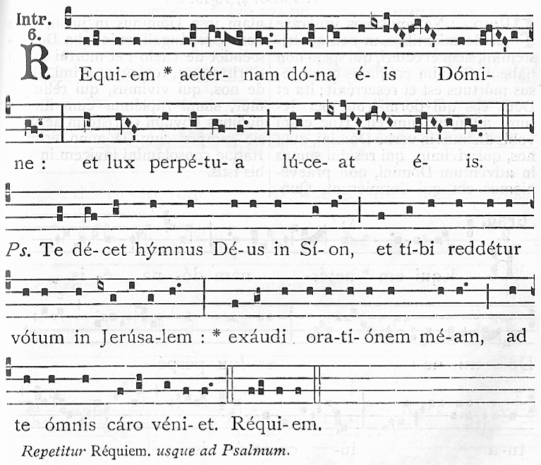 Requiem aeternam - Missa pro defunctis, Introitus Scan from Liber usualis Missae et Officii (12954) p. 1807